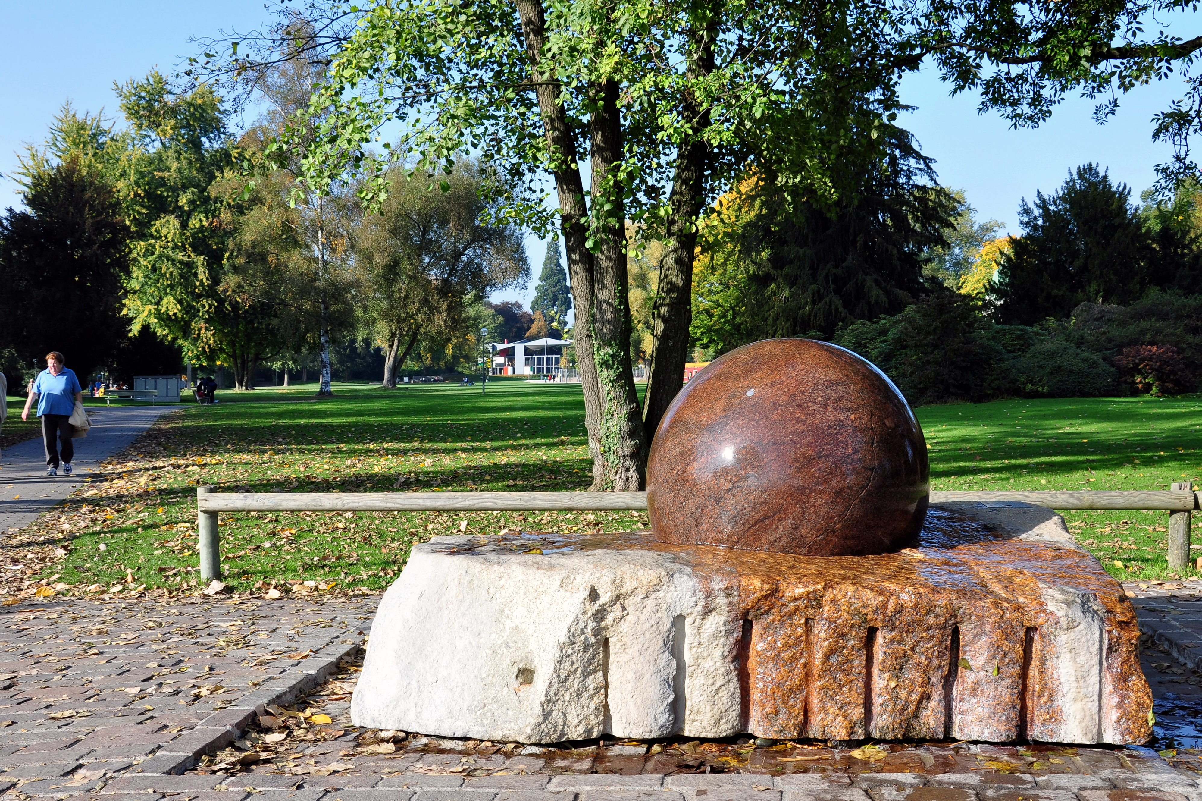 So-called Kugelbrunnen fountain of the Phönomena exhibtion (1984) at Zürichhorn in Zürich-Seefeld (Switzerland), Centre Le Corbusier in the background.